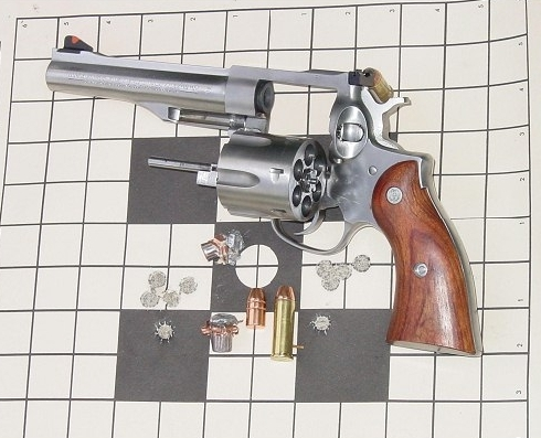 Stainless Redhawk with 5-inch Barrel. Groups from bench at 25 Yards